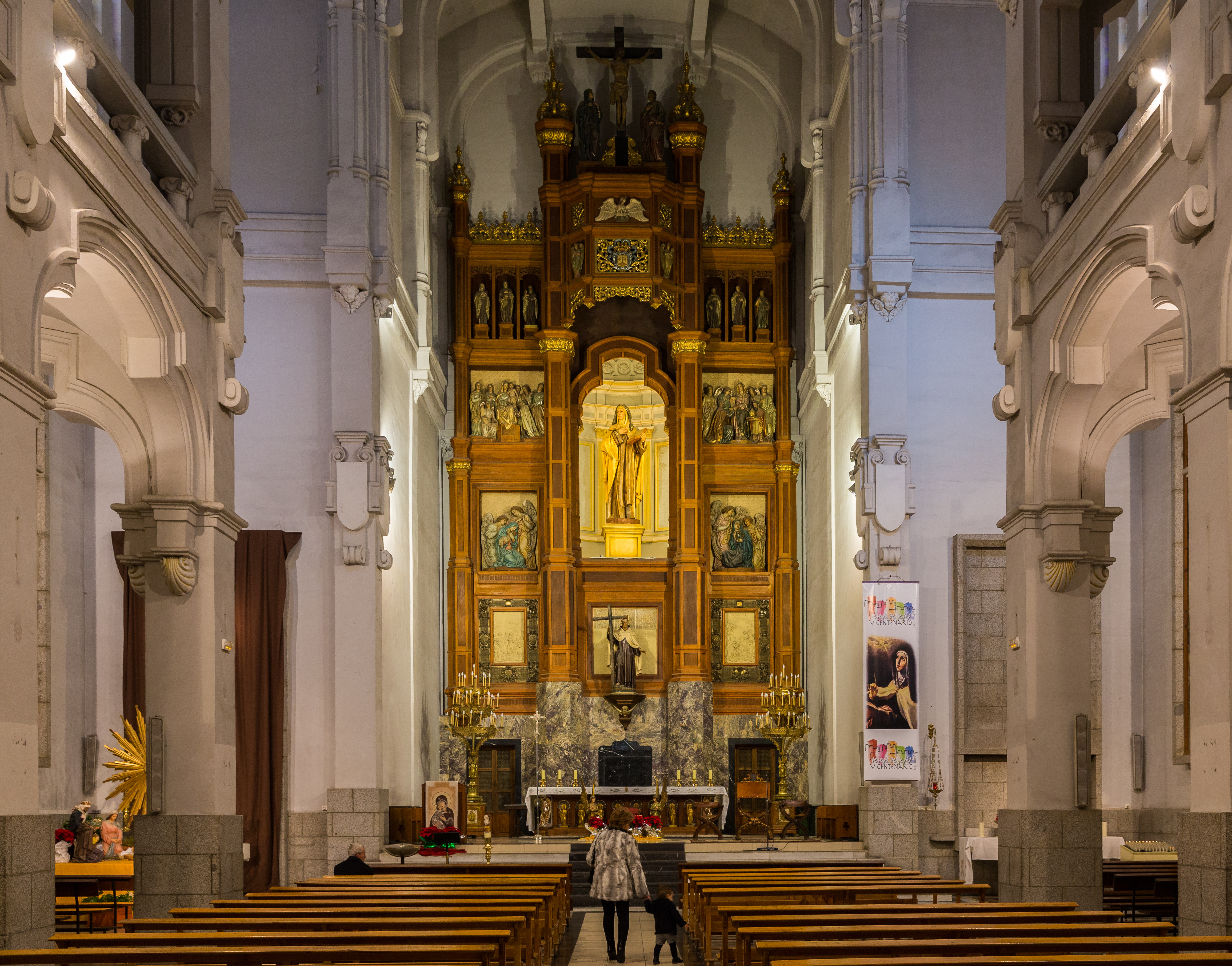 Church of Santa Teresa and San José, Madrid, Spain